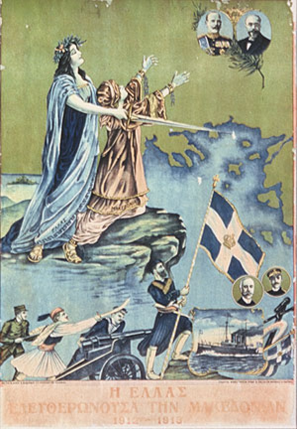 Greek poster for the victorious balkan wars